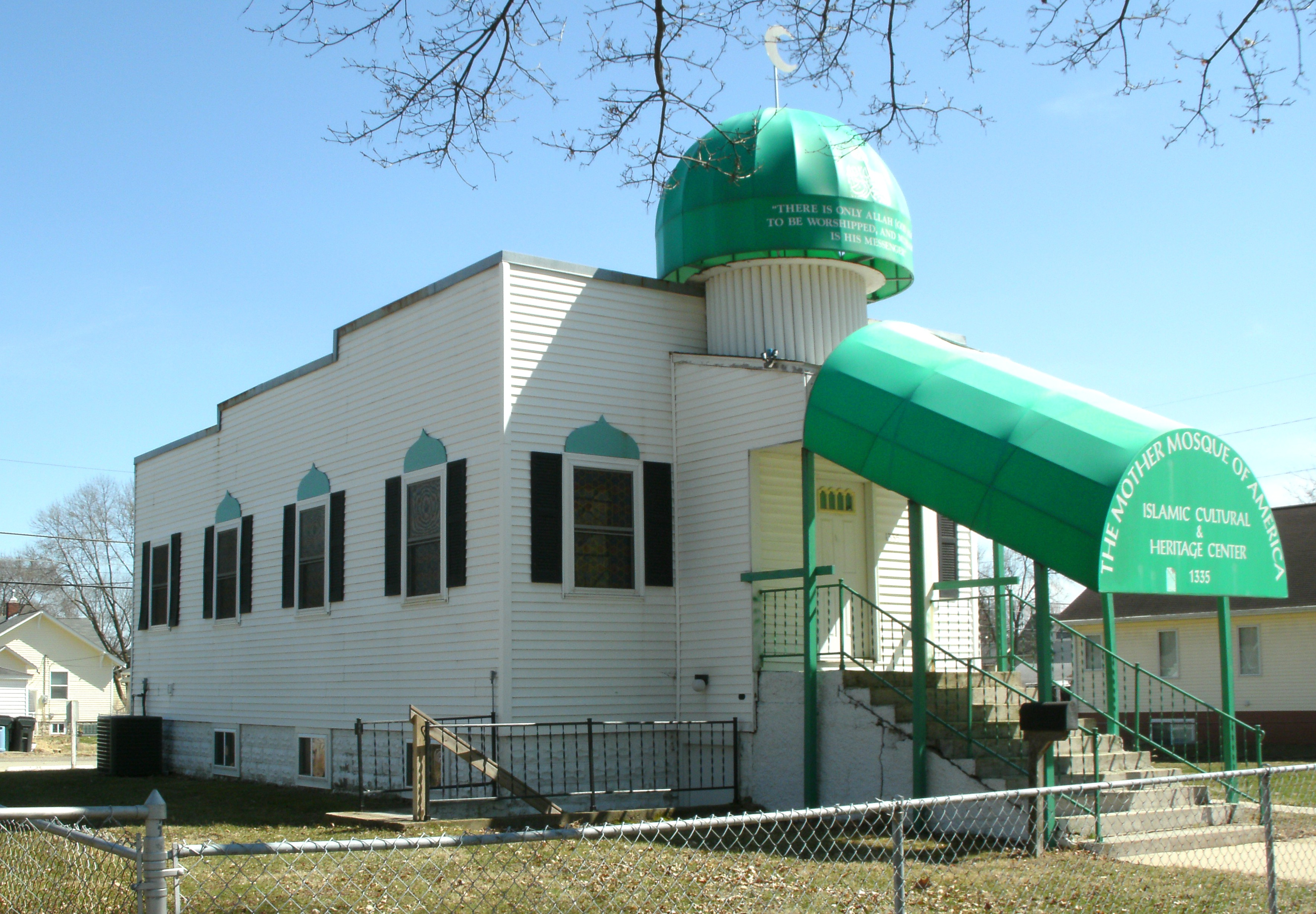 Mother Mosque of America located at 1335 9th Street Northwest in Cedar Rapids, Linn County, Iowa is on the National Register of Historic Places. Front and left side view.